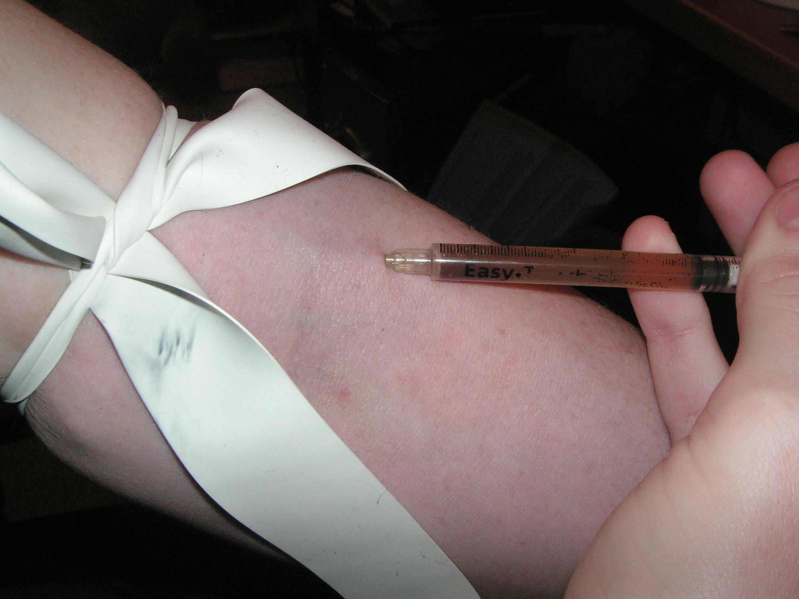 Injecting tar filtered using cotton from a tampon using a reused syringe but not shared.